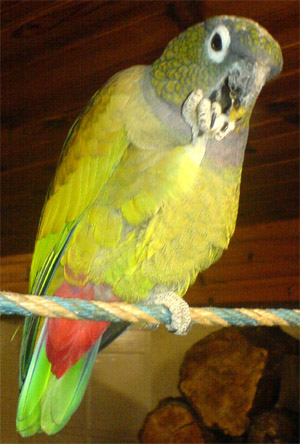 Scaly-headed Parrot. Looks like the colours have been distorted by flash photography.